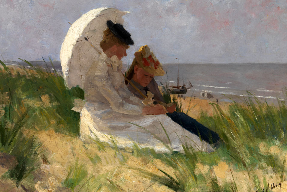 Ferdinand Hart Nibbrig, On the dunes in Zandvoort, c. 1892. Oil on canvas. Collection: Singer Museum Laren (the Netherlands)?